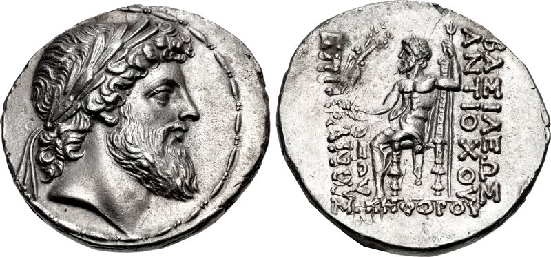 SELEUKID KINGS of SYRIA. Antiochos IV Epiphanes. 175-164 BC. AR Tetradrachm (30mm, 16.58 g, 12h). Antioch on the Orontes mint. Series 3, struck 168-164 BC. Bearded head of Zeus right, wearing laurel wreath / BAΣIΛEΩΣ ANTIOXOY ΘEOY EΠIΦANOYΣ NIKEΦOPOY, Zeus Nikephoros seated left; no control marks. SC 1398; Le Rider, Antioche, Series IIIA, 225 (A22/P159) = Sunrise 195 corr. (obv. type; this coin); Mørkholm Series III, 14 (A23/P94); SMA 63; HGC 9, 620a. EF, double struck on reverse. Bold portrait. From the Sunrise Collection. Ex Numismatic Fine Arts XXXII (10 June 1993), lot 95.